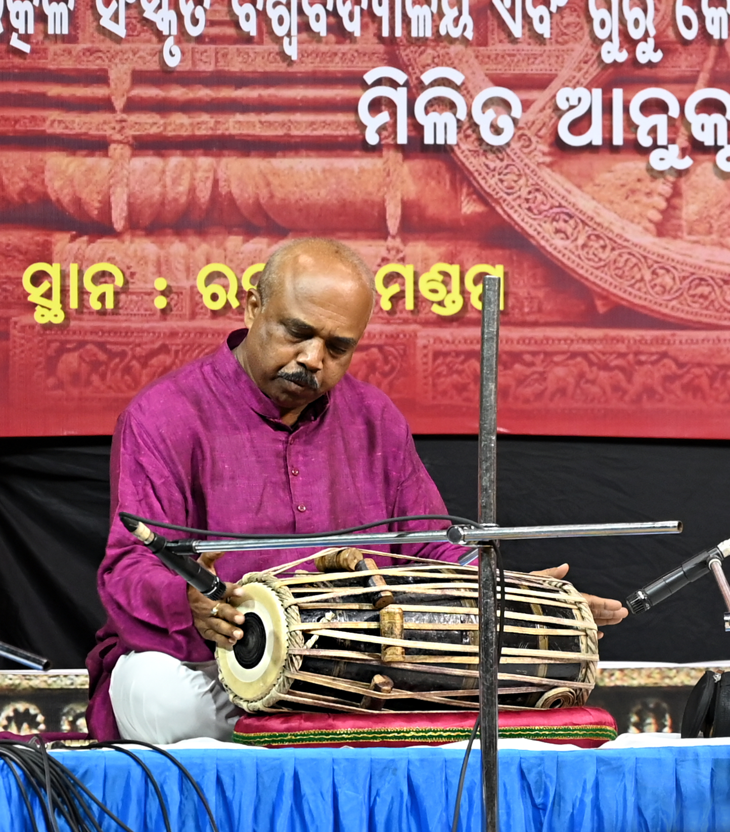 Professor Jagannath Kuanr plays the Odissi mardala, the primary percussion instrument used in Odissi Classical Music belonging to the Indian state of Odisha. Photograph taken during performance in Sanskruti Bichitra : Odissi Asara organised by the Department of Culture, Government of Odisha in association with Utkal Sangeeta Mahabidyalaya and Guru Kelucharan Mohapatra Odissi Research Centre. Personality rights warningAlthough this work is freely licensed or in the public domain, the person(s) shown may have rights that legally restrict certain re-uses unless those depicted consent to such uses. In these cases, a model release or other evidence of consent could protect you from infringement claims.